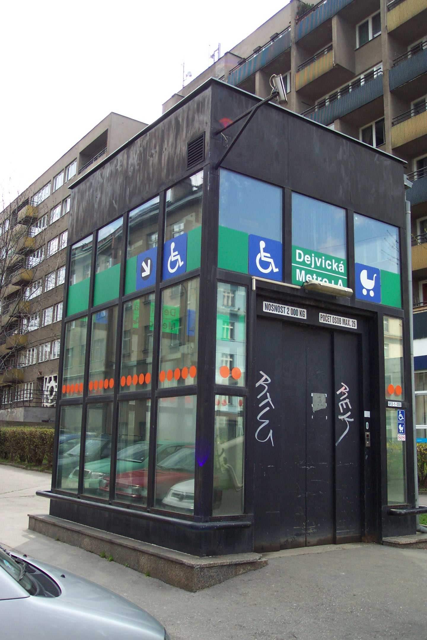 Lift for handicaped passengers in station Dejvická.